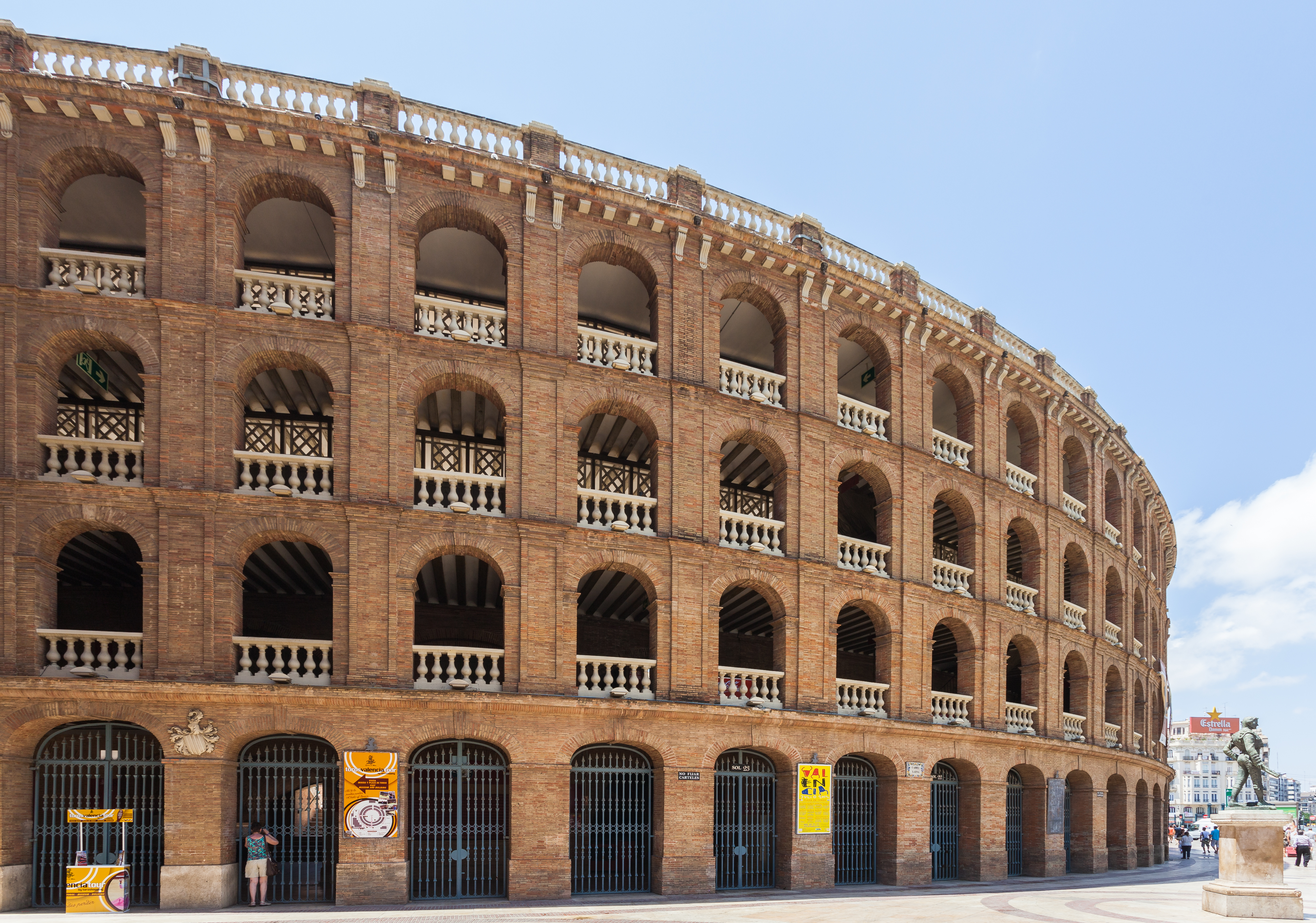 Bull fighting arena, Valencia, Spain